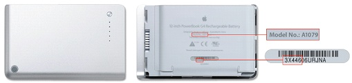 Apple PowerBook battery serial number location, from CPSC recall notice. URL